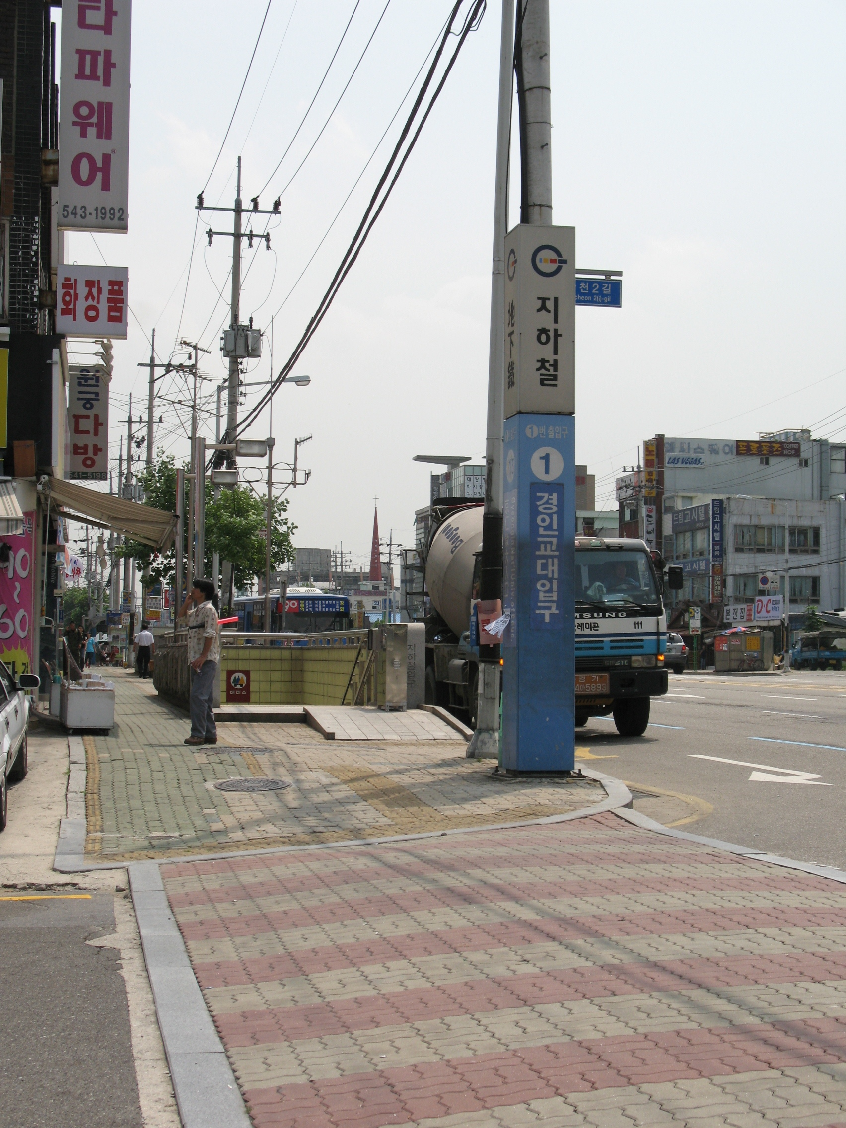 Incheon Subway Line 1 Gyeongin National University of Education Station